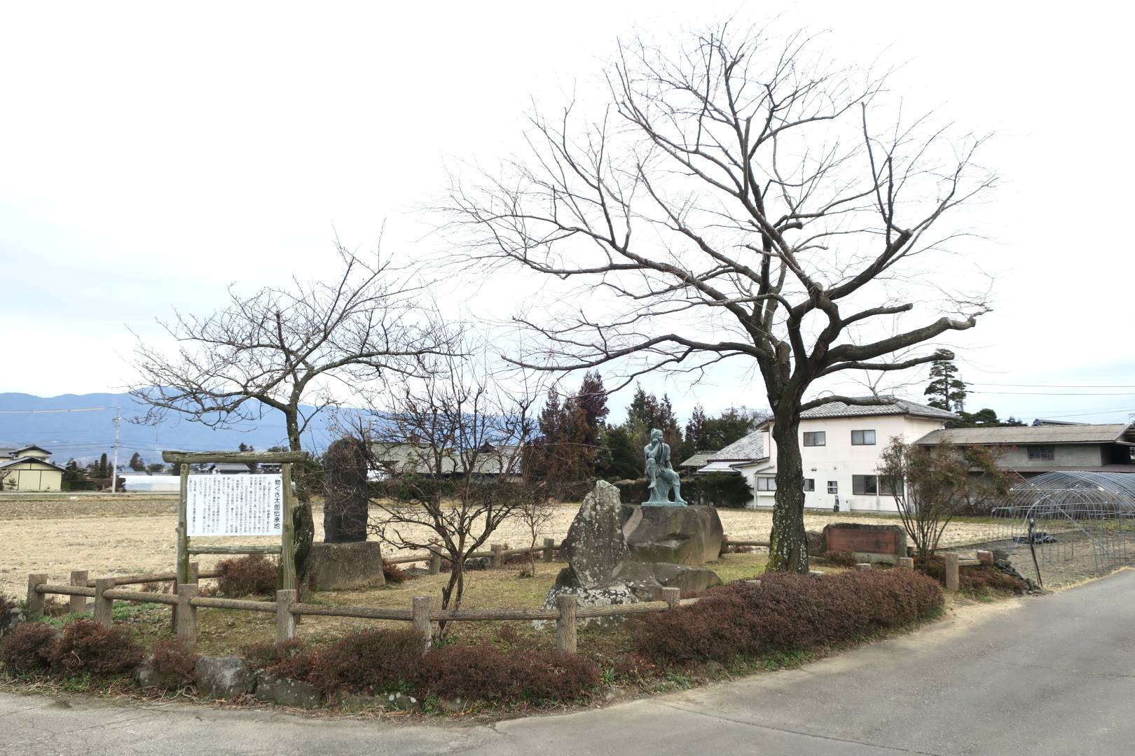 Monokusataro traditional place (Matsumoto, Nagano).